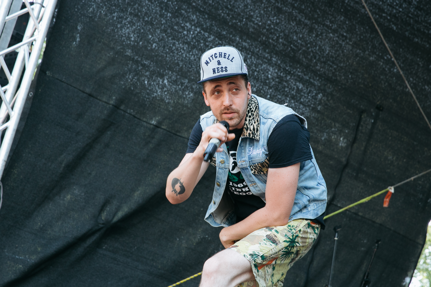 Antilopen Gang at Vainstream 2015